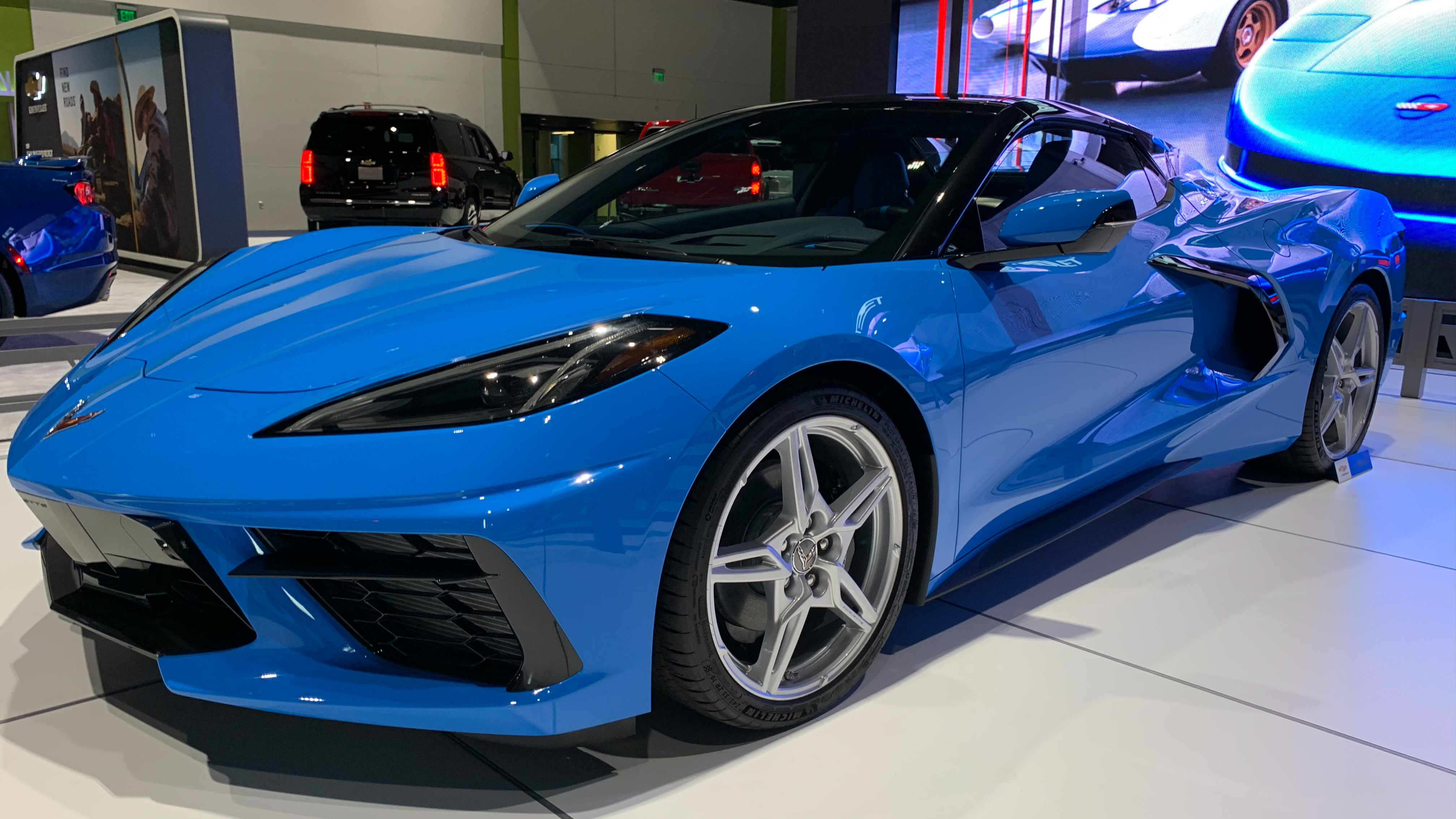 2020 Chevrolet Corvette C8 Stingray at the Silicon Valley Auto Show